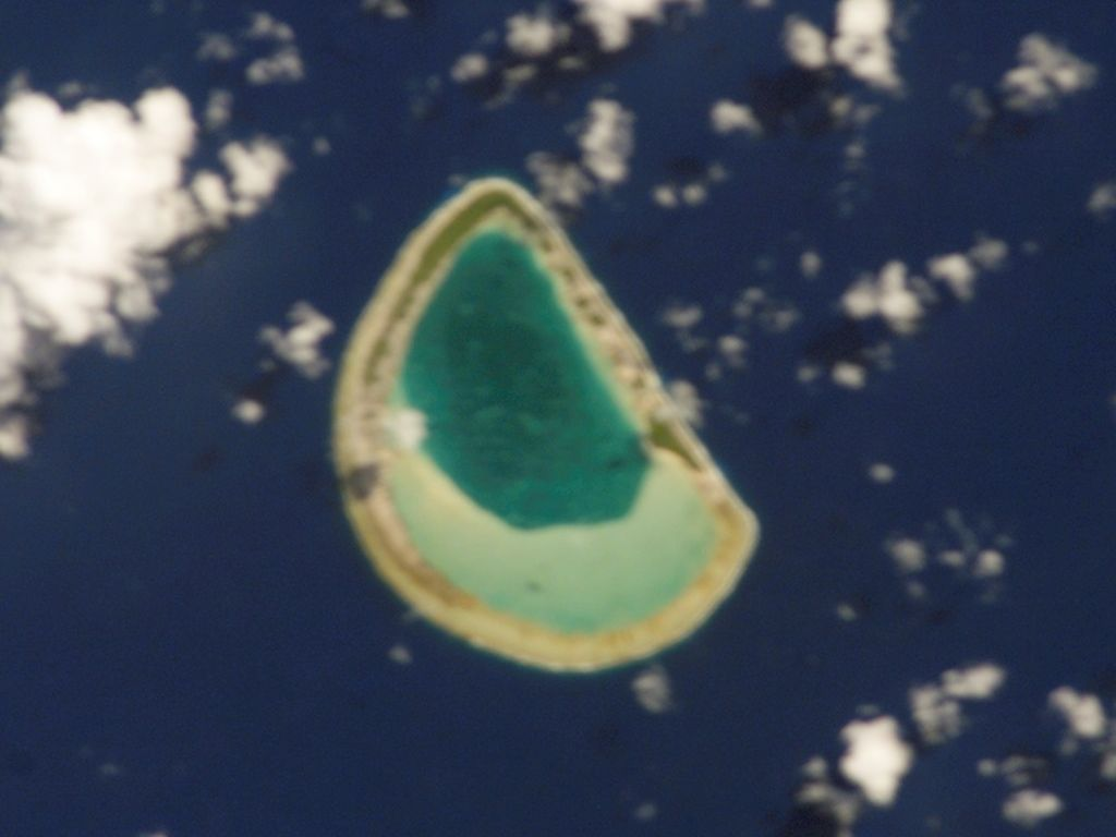 NASA astronaut image of Reitoru Atoll (Tuamotu Archipelago, French Polynesia) in the Pacific Ocean